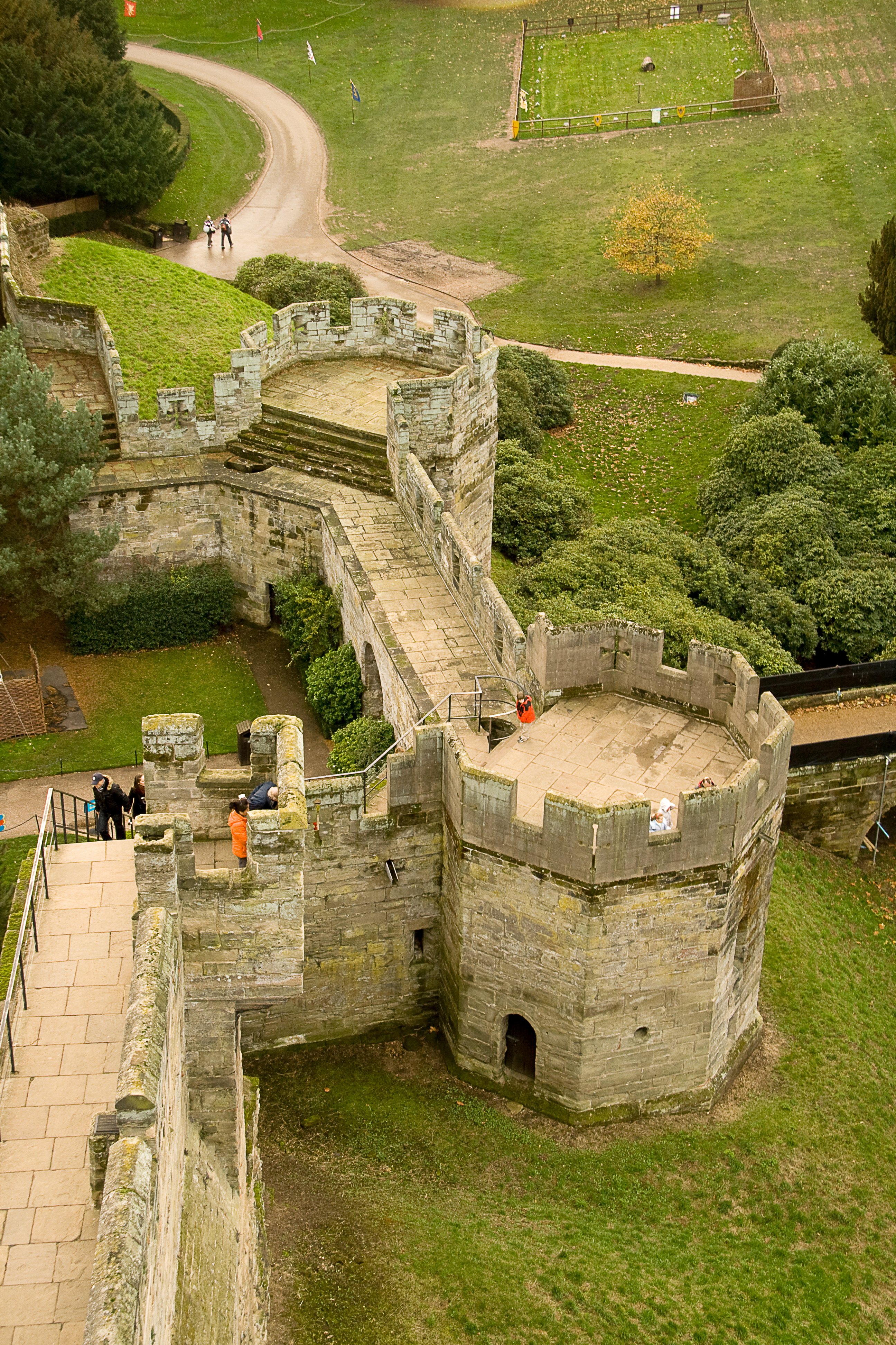 View of Bear and Clarence Towers from high on Guy's Tower. The two towers flank an entrance in the north-west wall of Warwick Castle and were constructed at the request of Richard III in the 1480s.